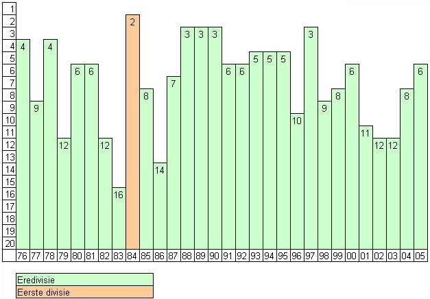 Dutch league positions of Twente, last 30 seasons